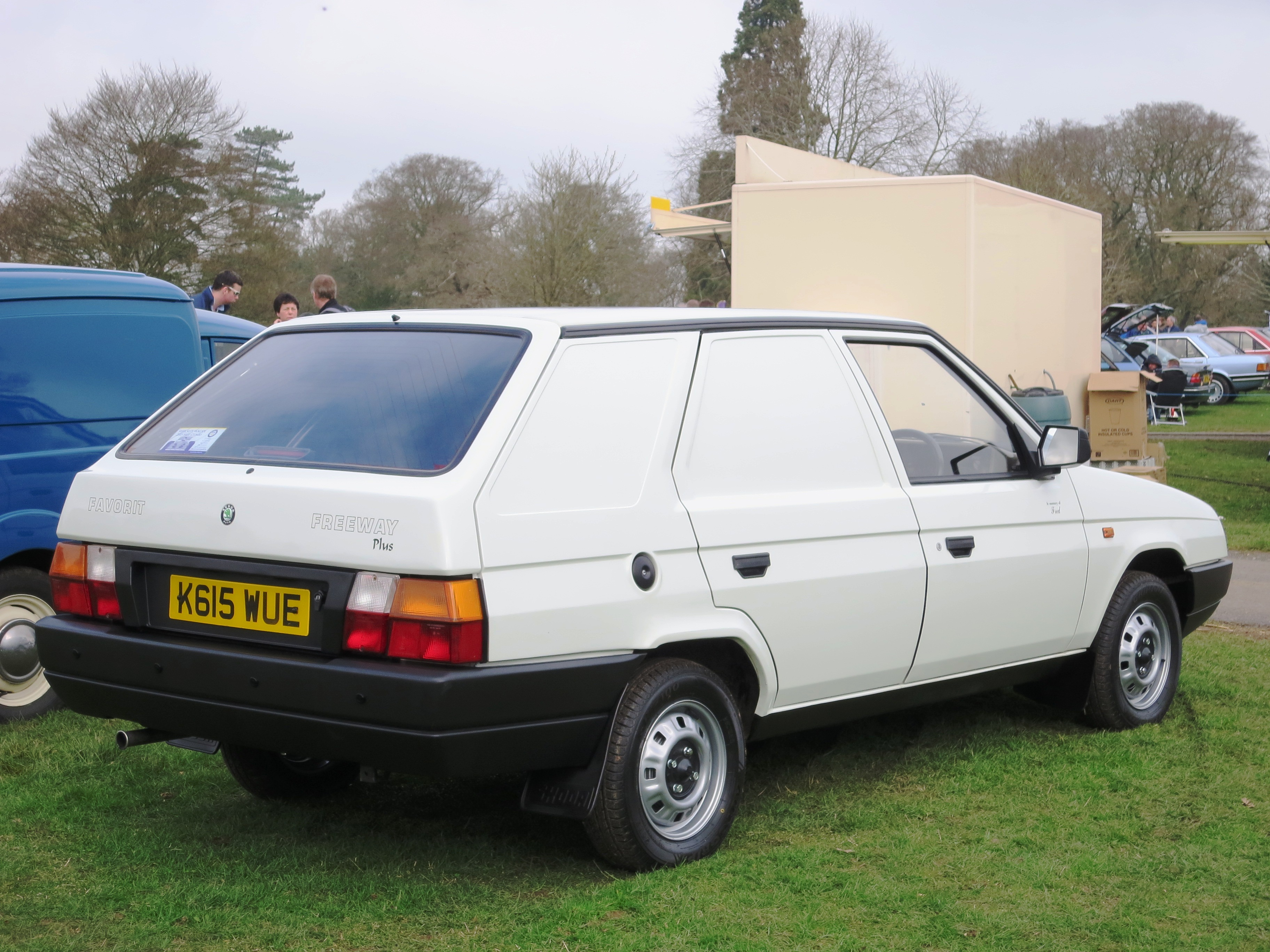 Škoda Forman Praktik (1993)